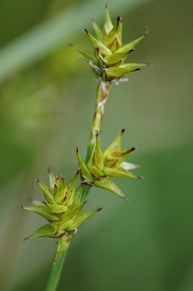 Picture taken in Commanster, Belgian High Ardennes . Species: Carex echinata